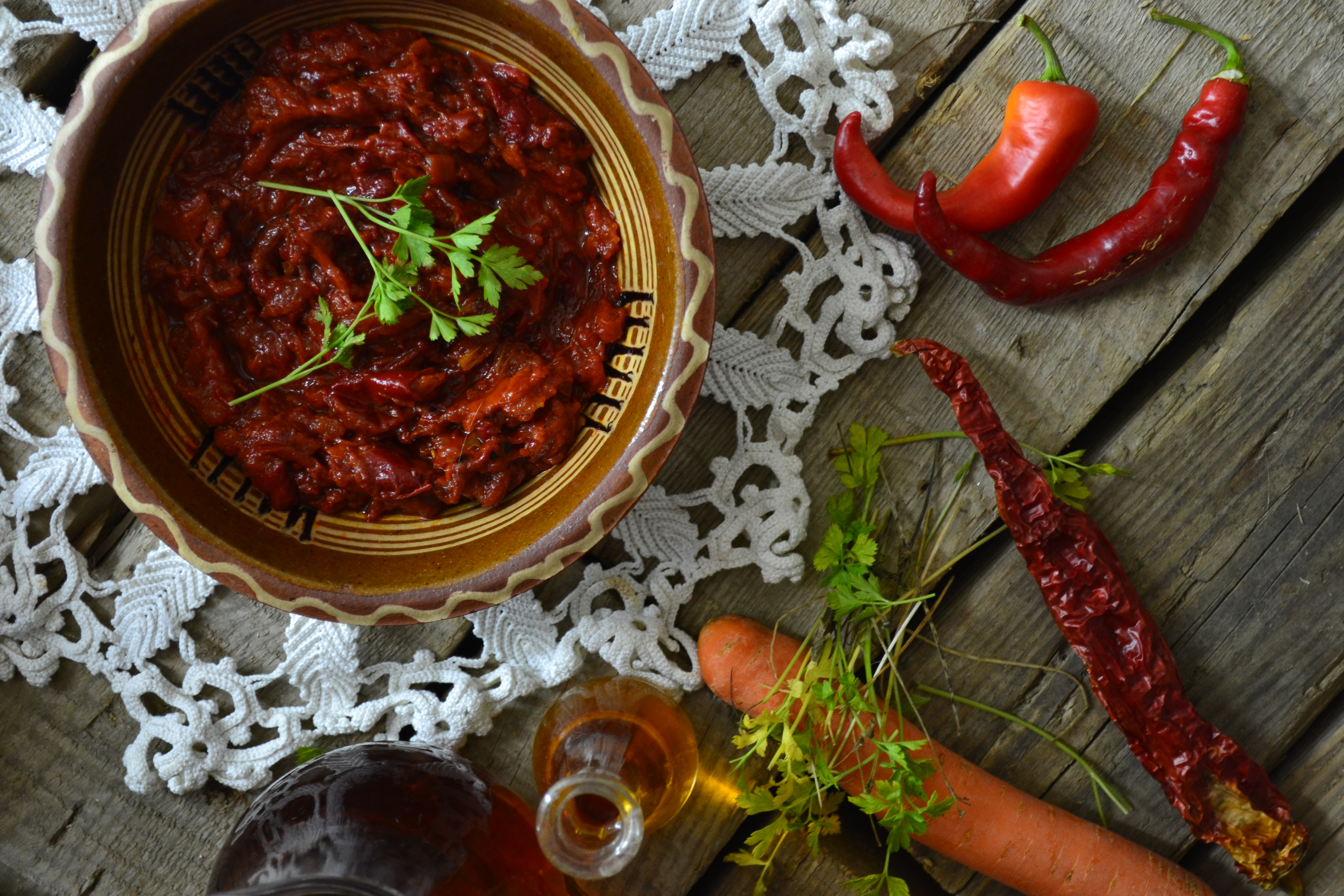 Lutenica - spicy vegetable relish from hot red peppers, garlic, oil, sugar, salt and tomatoes. Perfect "meze" for rakia .